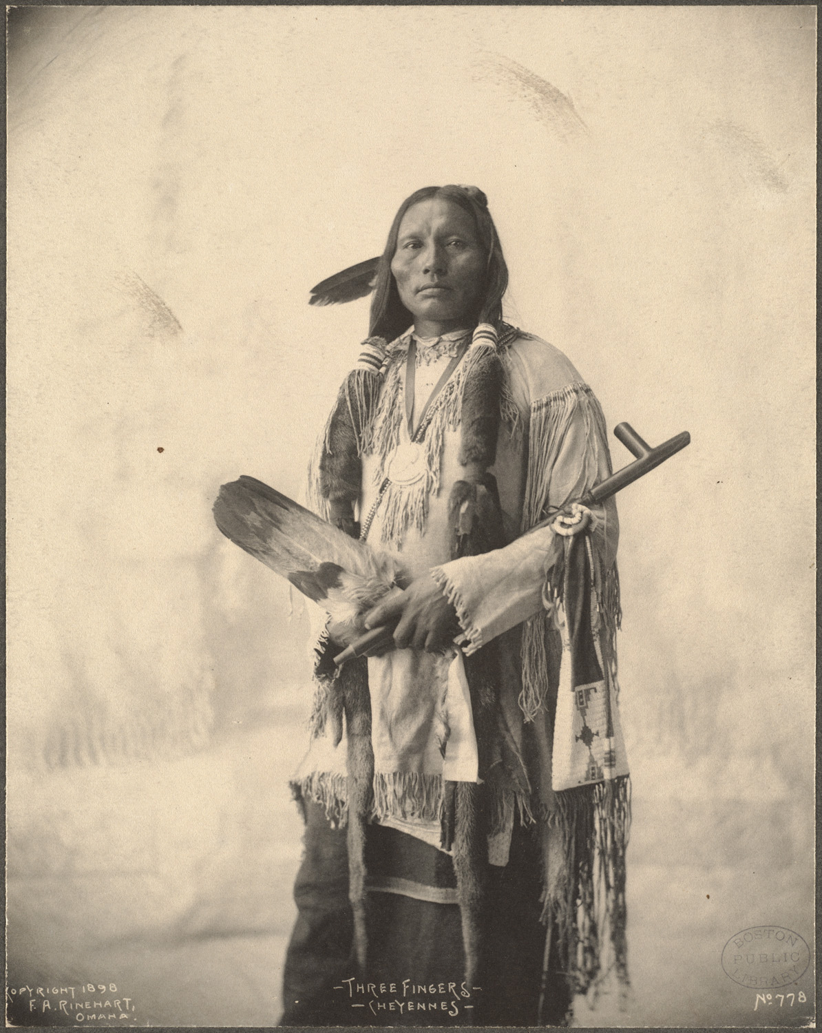 BPLDC no.: 09_06_000078 Rinehart no.: 778 Title: Three Fingers, Cheyennes Photographer: Rinehart, F. A. (Frank A.) Copyright date: 1898 Extent: 1 photographic print : platinum Genre: Platinum prints; Portrait photographs Subject: Indians of North America; Cheyenne Indians; Trans-Mississippi and International Exposition (1898 : Omaha, Neb.) BPL Department: Print Department